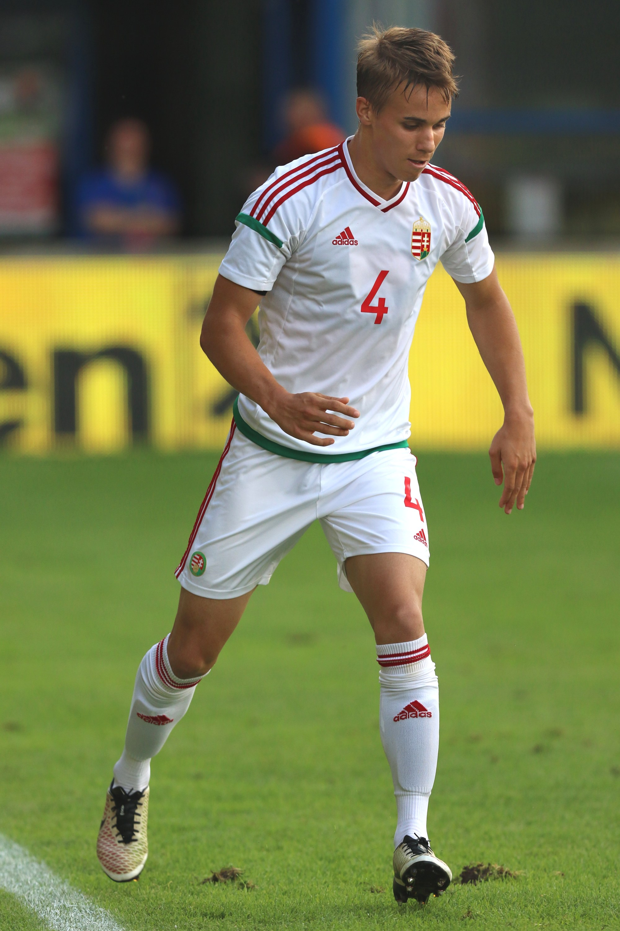 Friendly match: Austria U-21 (red shirts) vs. Hungary U-21 (white shirts) at 12. June 2017 in the Sonnenseestadion in Ritzing 2:1 (1:1) – The photo shows Kristóf Polgár (Haladás Szombathelyi)